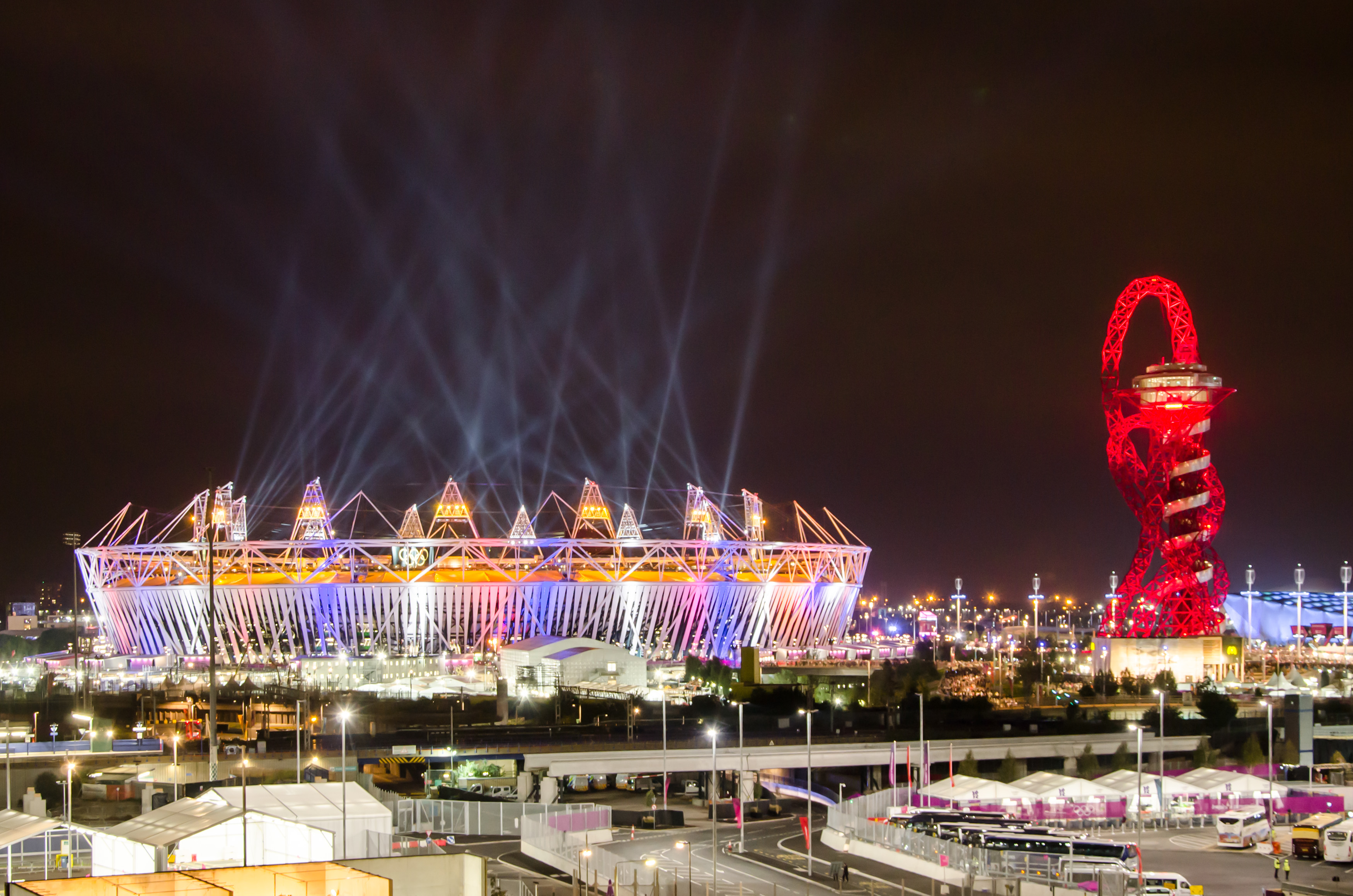 Olympic stadium and The Orbit during London Olympics opening ceremony (2012-07-27)